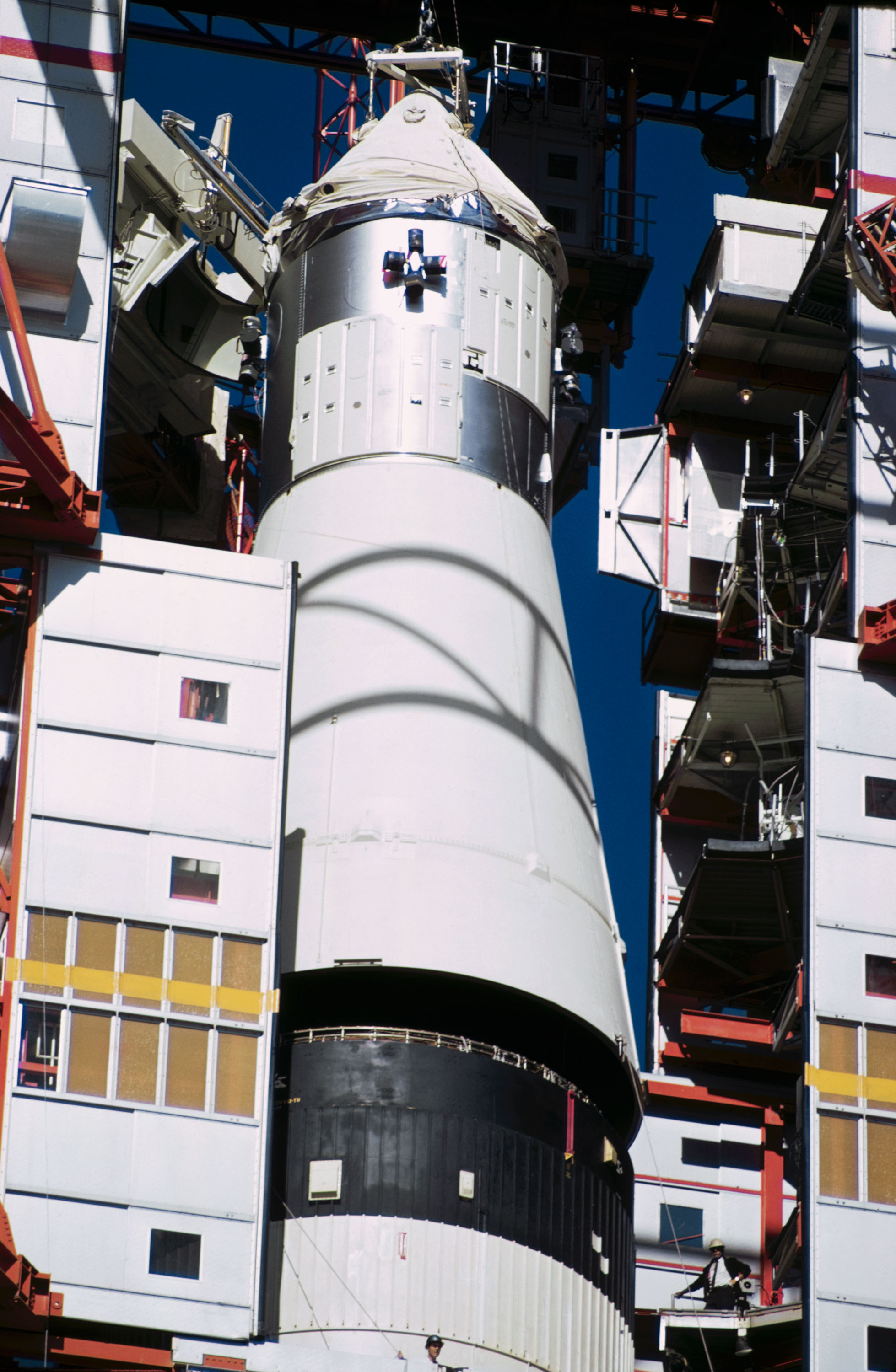 S67-17042 (1967) --- Apollo Spacecraft 012 is hoisted to the top of the gantry at Pad 34 during the Apollo/Saturn Mission 204 erection. S/C 012 will be mated with the uprated Saturn I launch vehicle.